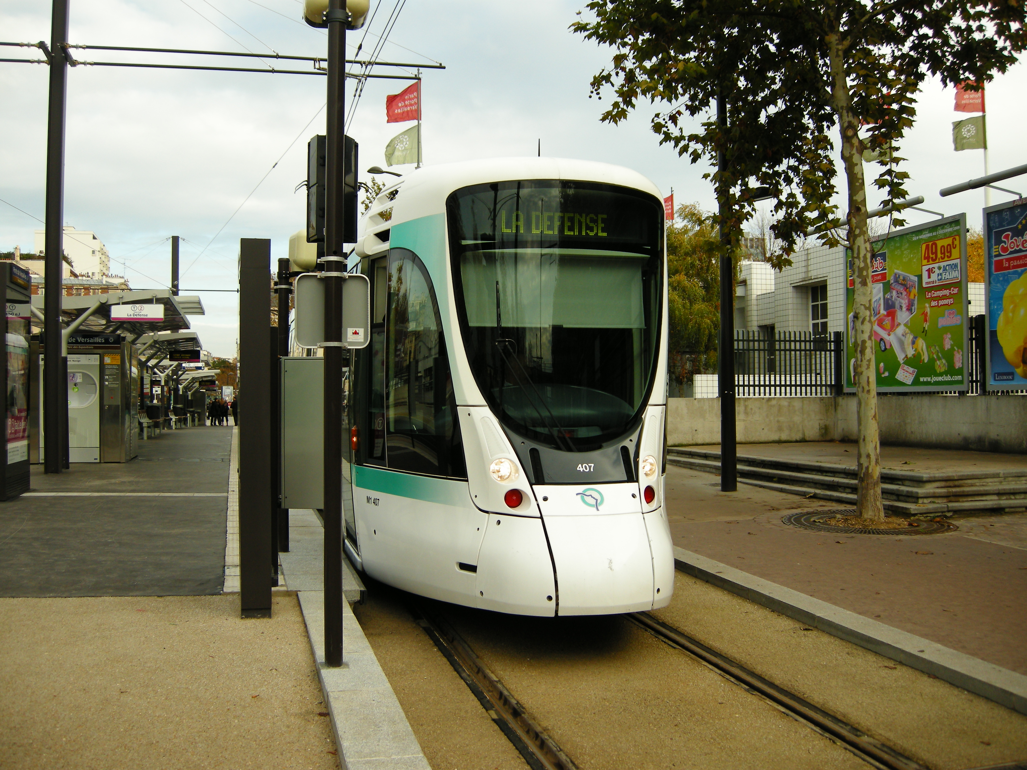 The terminus of Paris Tramway Line 2